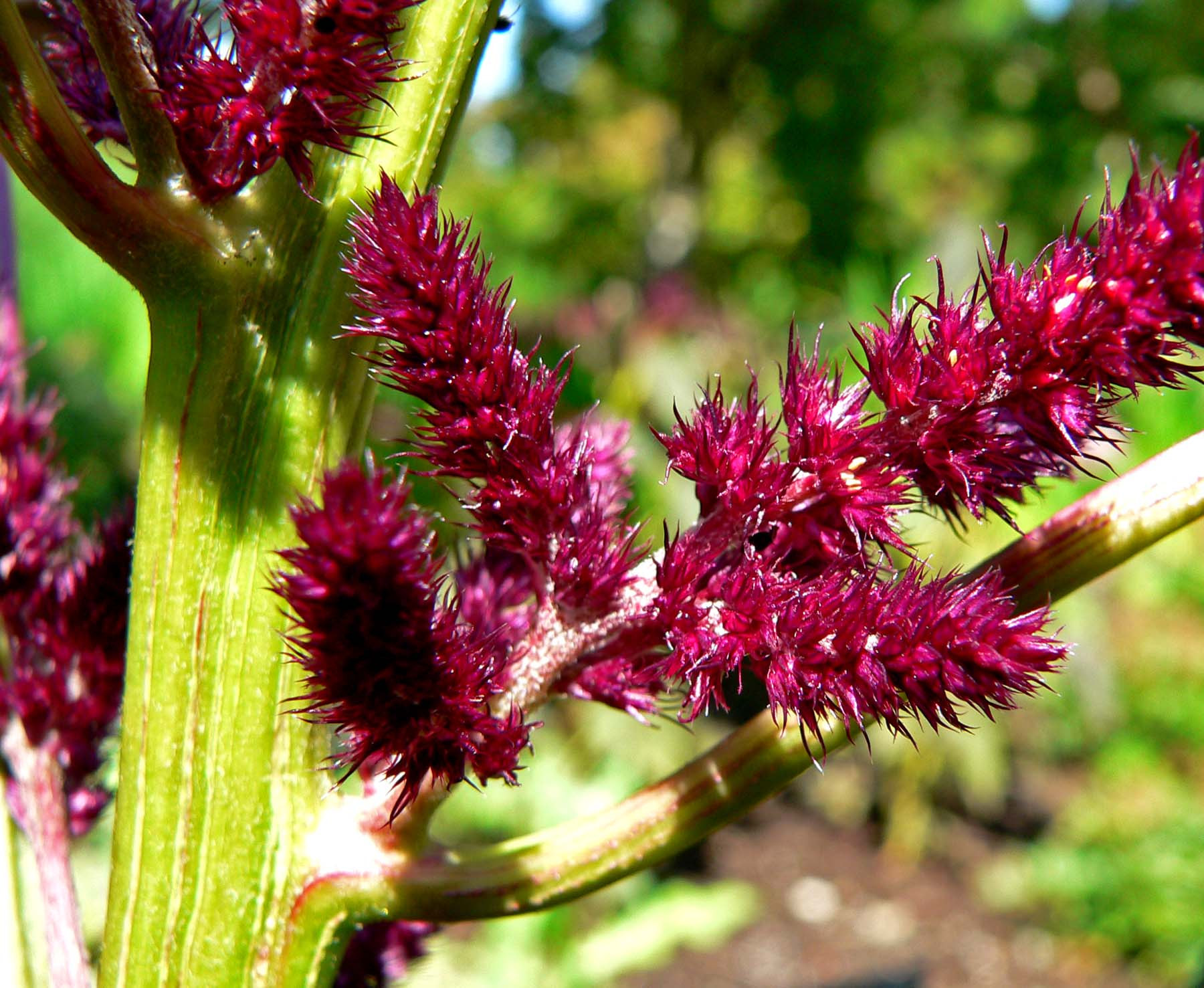 Photo of Amaranthus cruentus 'Foxtail' at the VanDusen Botanical Garden in Vancouver